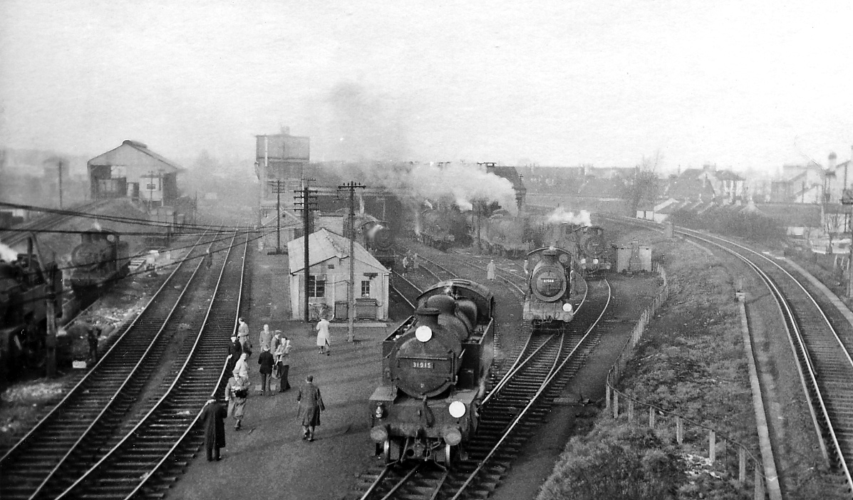 Norwood Locomotive Depot. View northward, towards London: ex-LB&SCR Depot. Serving Norwood Marshalling Yard, it was situated on the east side of the main line north of Norwood Junction station, with the Down loop of the line from Clapham Junction via Crystal Palace curving over at the far end and round to the left. The Depot (BR code 75C) had an allocation in 11/54 of 33 steam locomotives (17 0-6-0, 4 2-6-4T, 12 0-6-2T) and 14 Diesels (1 main-line, 13 shunters), most of which remained here in early 1960. The 'civilians' wandering around are on an RCTS Visit.